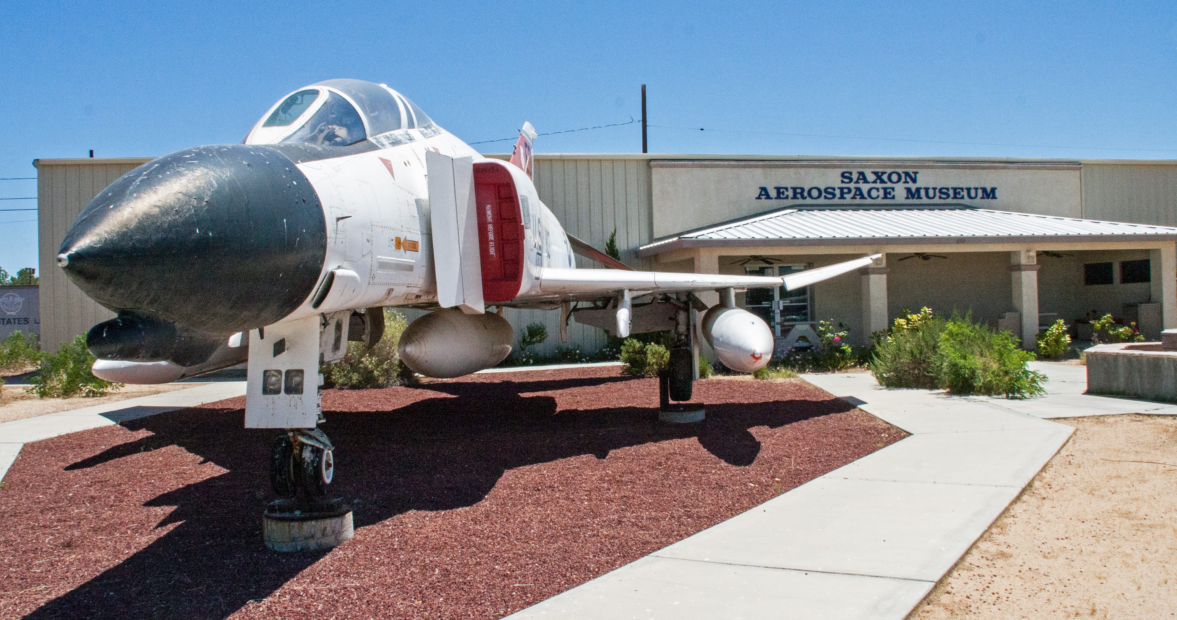 McDonnell F-4D-31-MC Phantom (s/n 66-7716) at the Saxon Aerospace Museum — in Boron, Mojave Desert, California (USA).